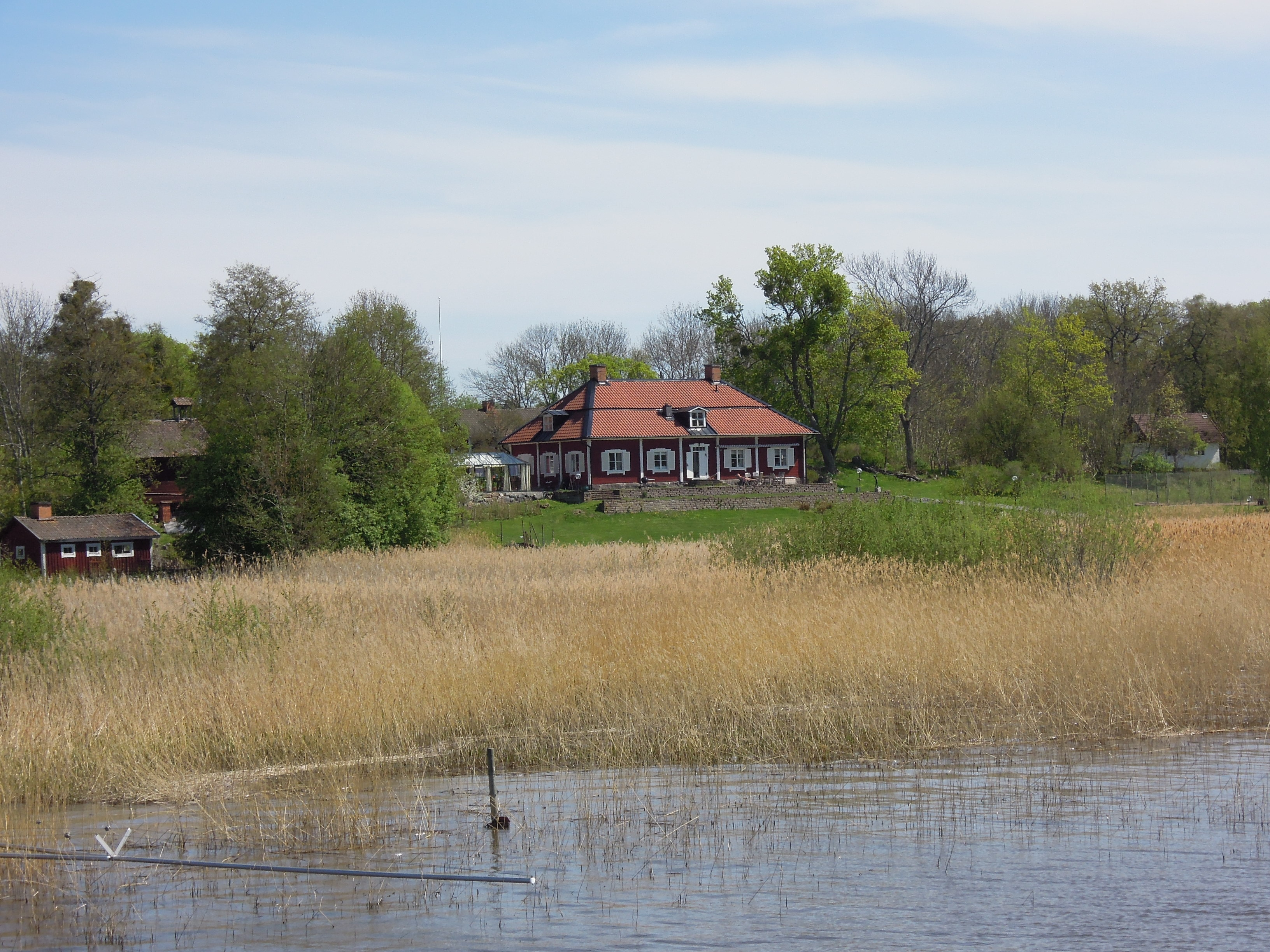 The manor of Aggarön near Västerås Sweden